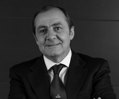 ritratto